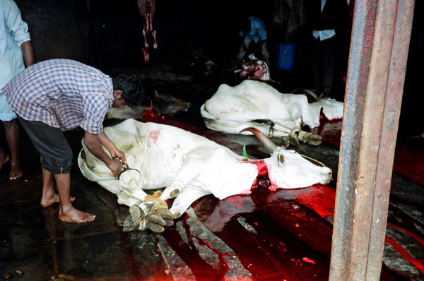 A cow being slaughtered for leather.